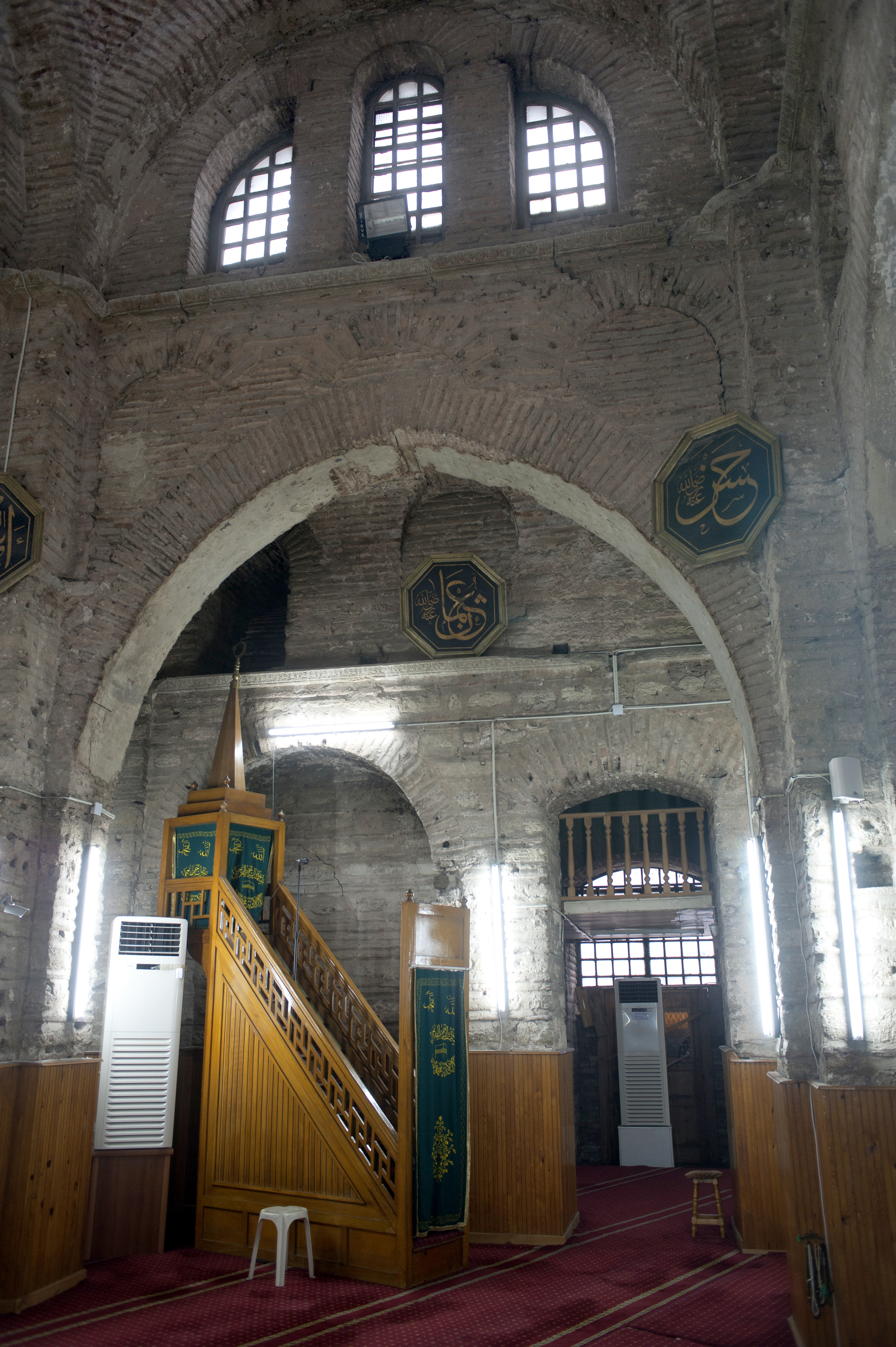 Minbar of Fenari Isa Mosque, Fatih, Istanbul, Turkey.